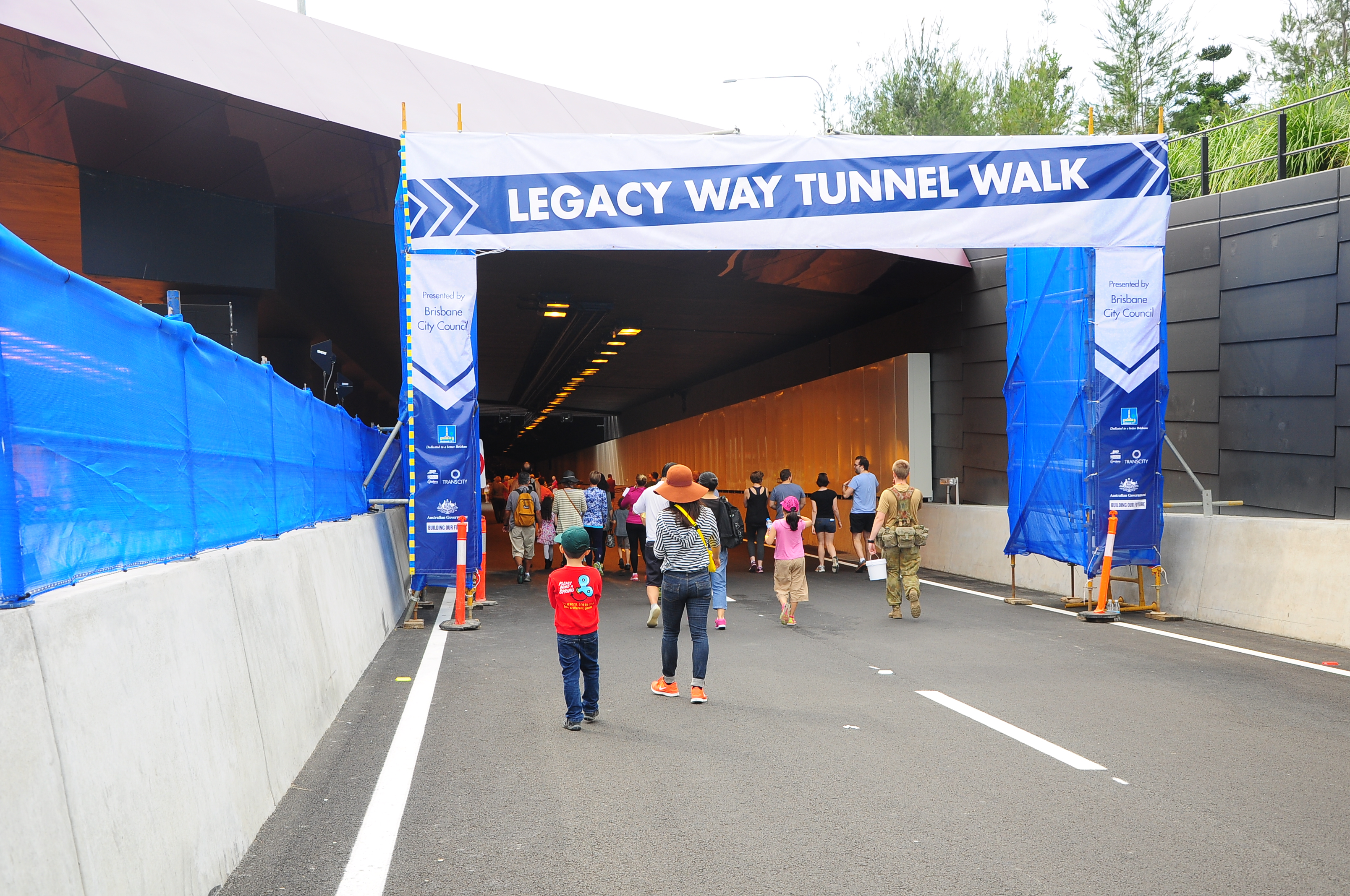 legacy way